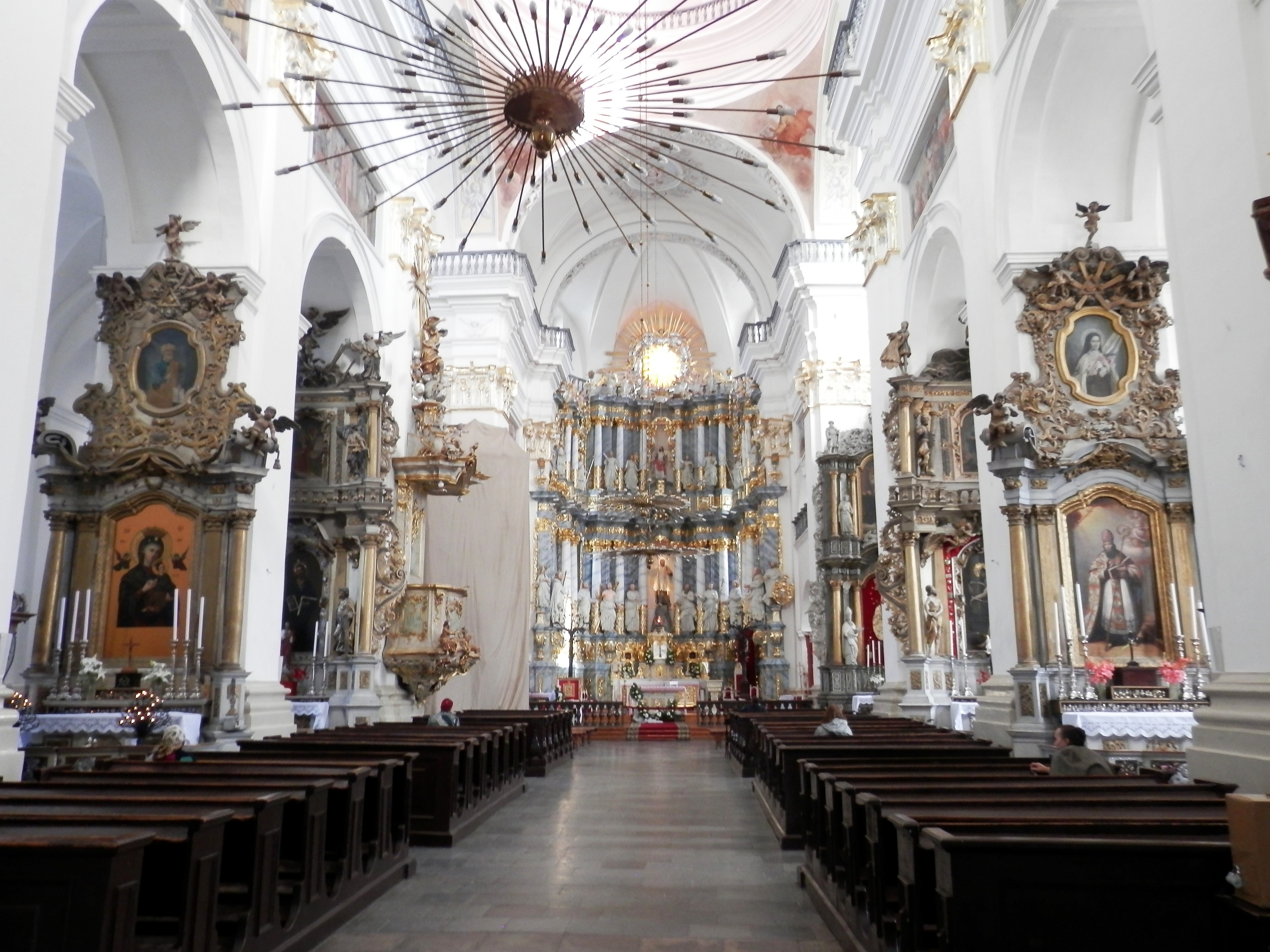 St. Francis Xavier Cathedral, Grodno